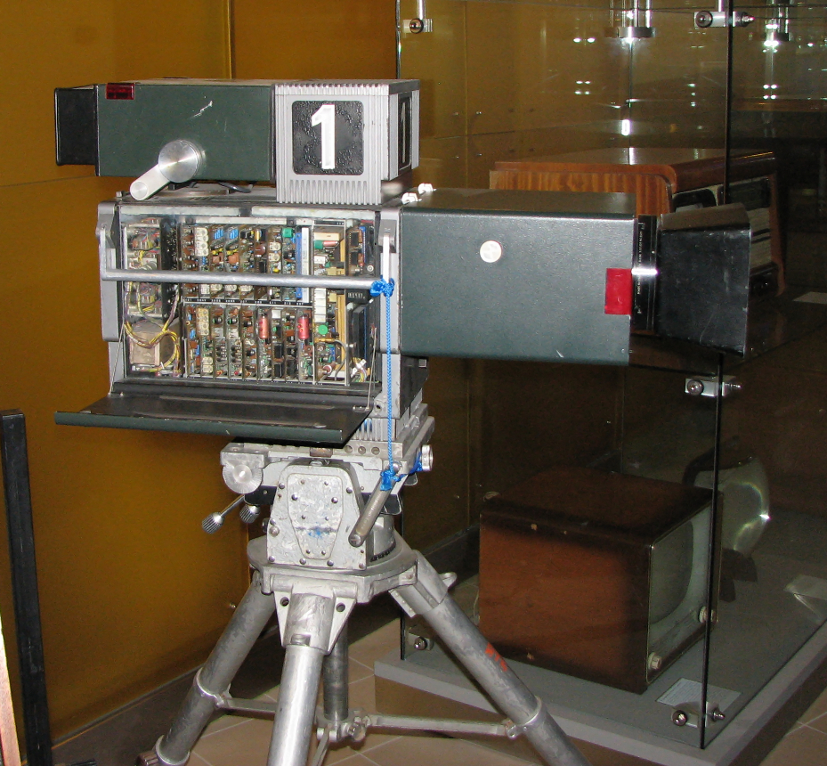 Historical television camera in Technical museum in Brno, Czech Republic. Tesla TKP306.